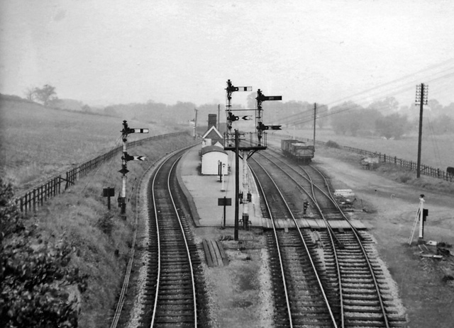 Broom Junction railway station. View northwards, towards Redditch, Barnt Green and Birmingham. Behind camera, the branch to Stratford-on-Avon and Blisworth, also to the Midland Main Line at Ravenstone Wood Junction, went off to the east. Broom - Stratford was closed to passengers 23/5/49, on to Blisworth 7/4/52; goods traffic ceased in stages up to 13/6/60 (latterly from the WR at Stratford, by connections there and at Broom opened during World War Two). The main line, Barnt Green - Redditch - Broom - Evesham - Ashchurch was closed Redditch - Evesham on 1/10/62, Evesham - Ashchurch on 17/6/63 (Goods 8/3/64).